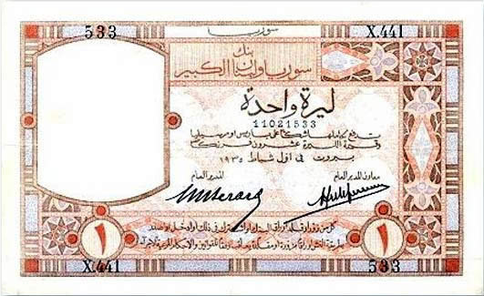 Syrian Old Pound